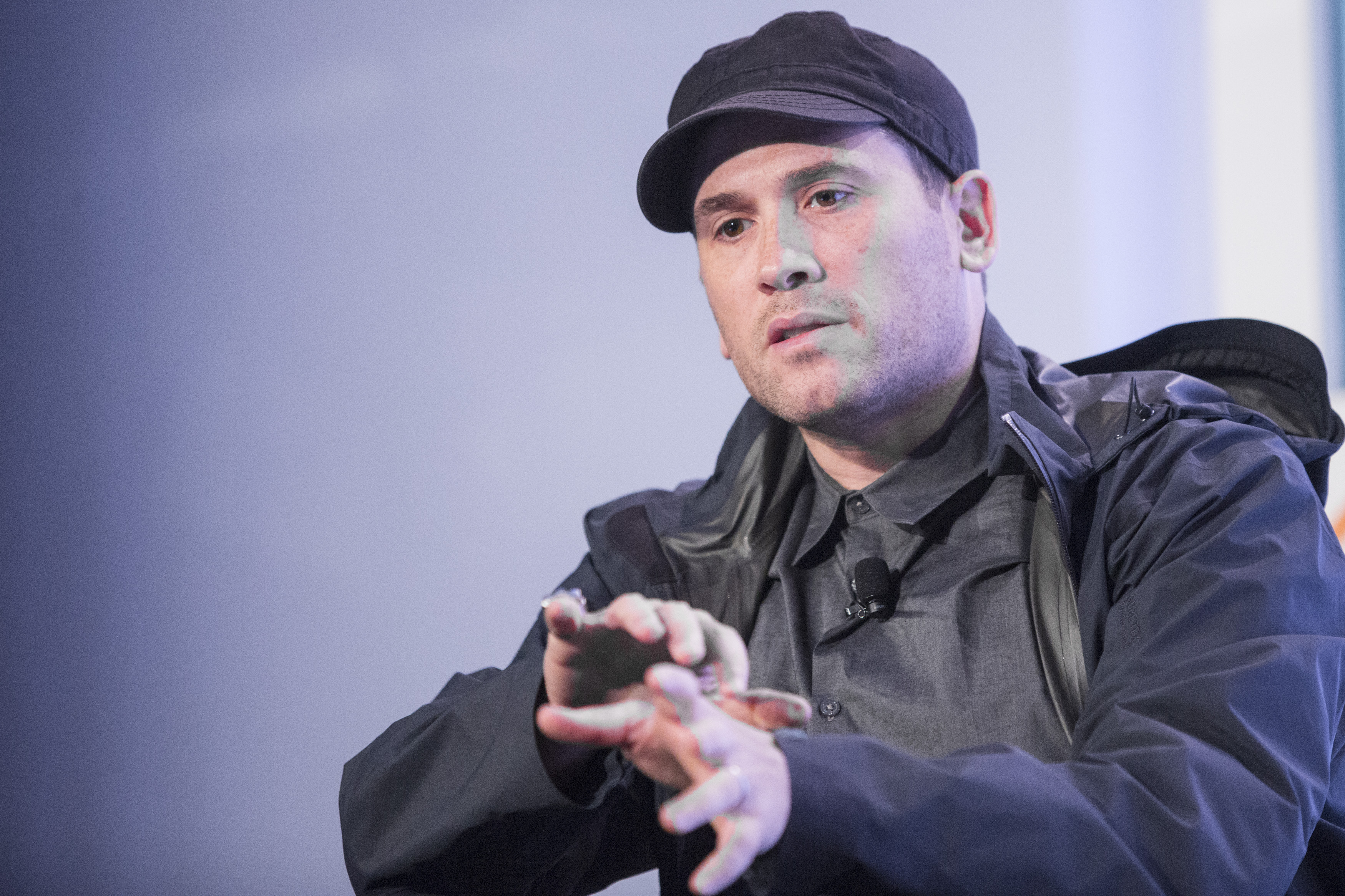 Journalist Megan McCarthy presents A Fireside Chat with Marc Ecko: Convergence Culture + the Death of Demographics at Internet Week HQ on Day 1 of Internet Week 2015 in New York May 18, 2015. Insider Images/Andrew Kelly (UNITED STATES)